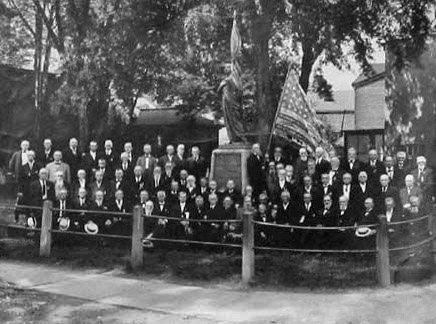 Members of the 120th New York Infantry in the Grand Army of the Republic at a 1912 reunion at Old Dutch Church, Kingston, NY, USA, where they were organized, armed and trained during the Civil War